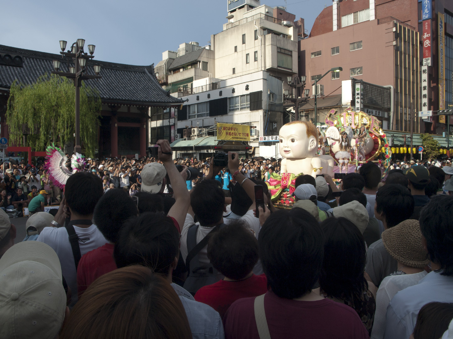 Samba dancers of "G.R.E.S.SAUDE Yokohama" at Asakusa Samba Carnival parade 2010 near the Kaminari-mon Gate.